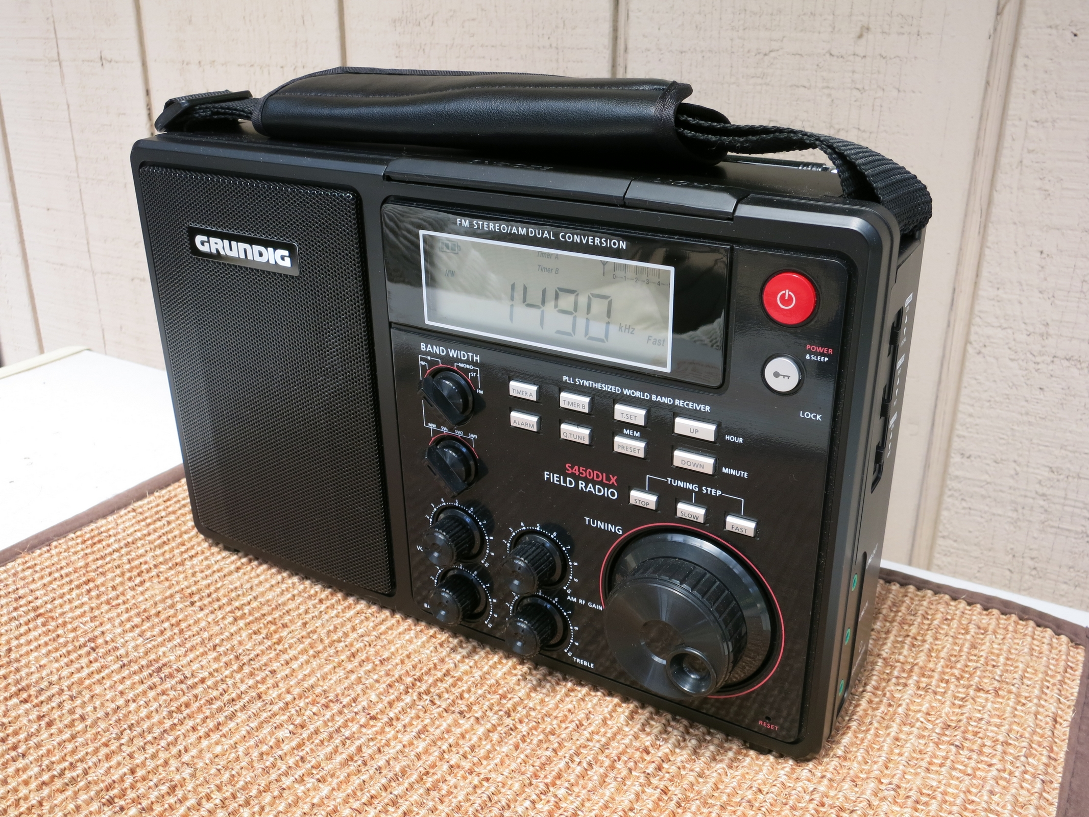 AM/FM Shortwave Receiver. Made in China.